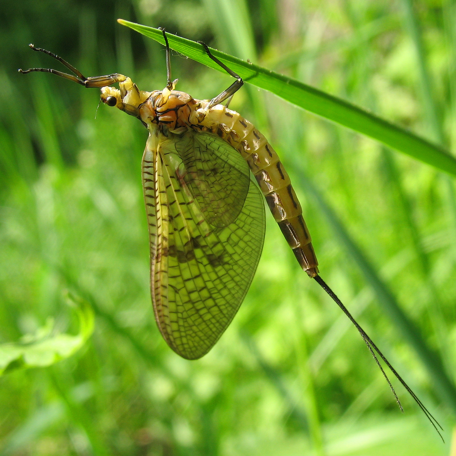 Male mayfly, presumably of the species Ephemera danica hanging on a grass leaf.